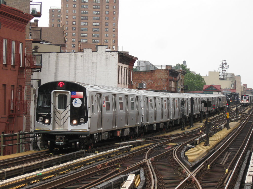 R160 M train is about to enter Hewes Street, bound for Middle Village.